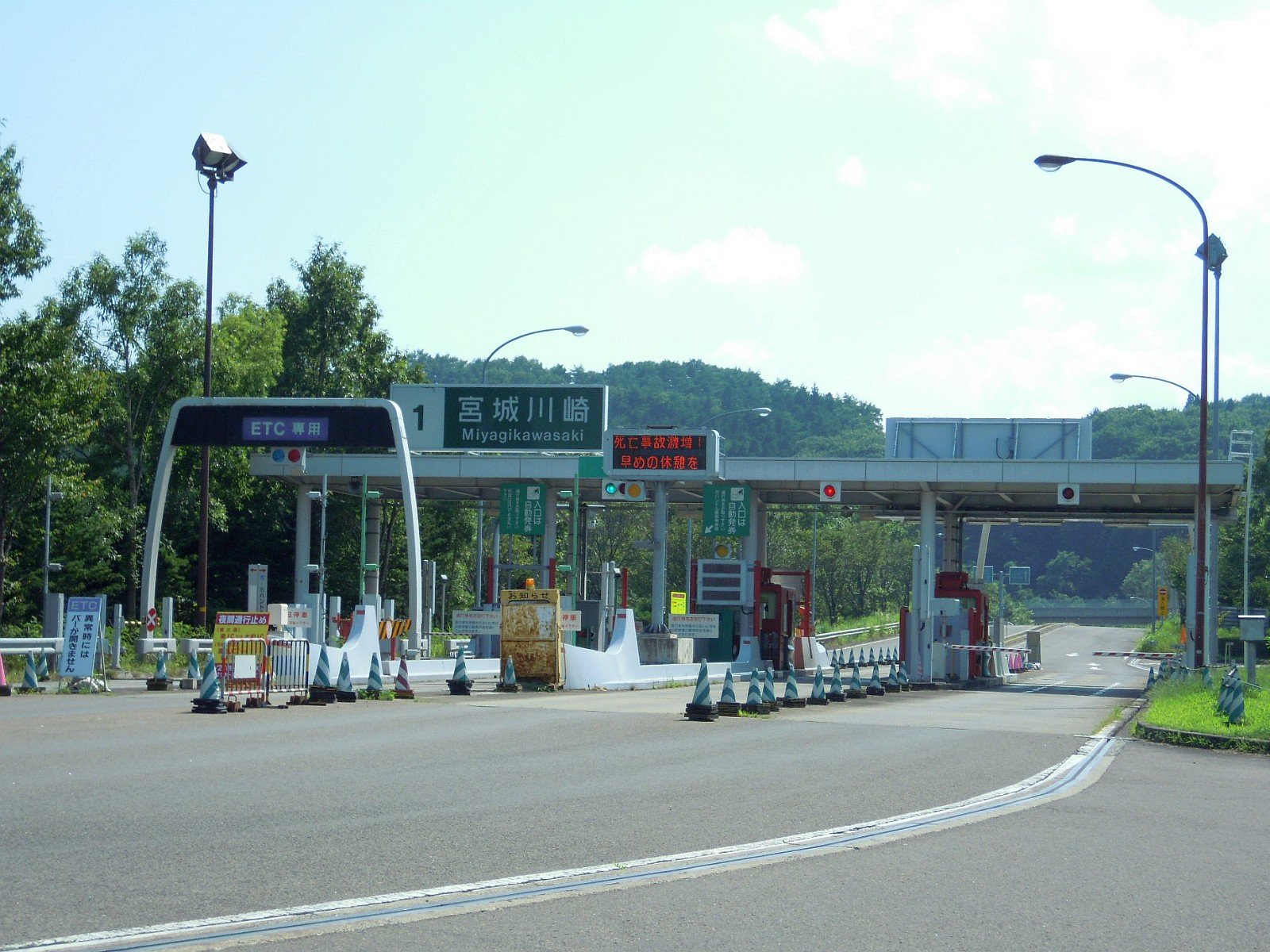 This Interchange, Miyagikawasaki Interchange, is on Yamagata Expressway, in Kawasaki Town Miyagi Prefecture, Japan.